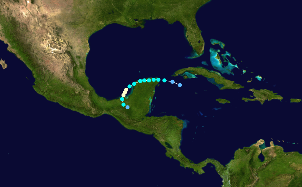 Hurricane Brenda (1973) track. Uses the color scheme from the Saffir-Simpson Hurricane Scale.